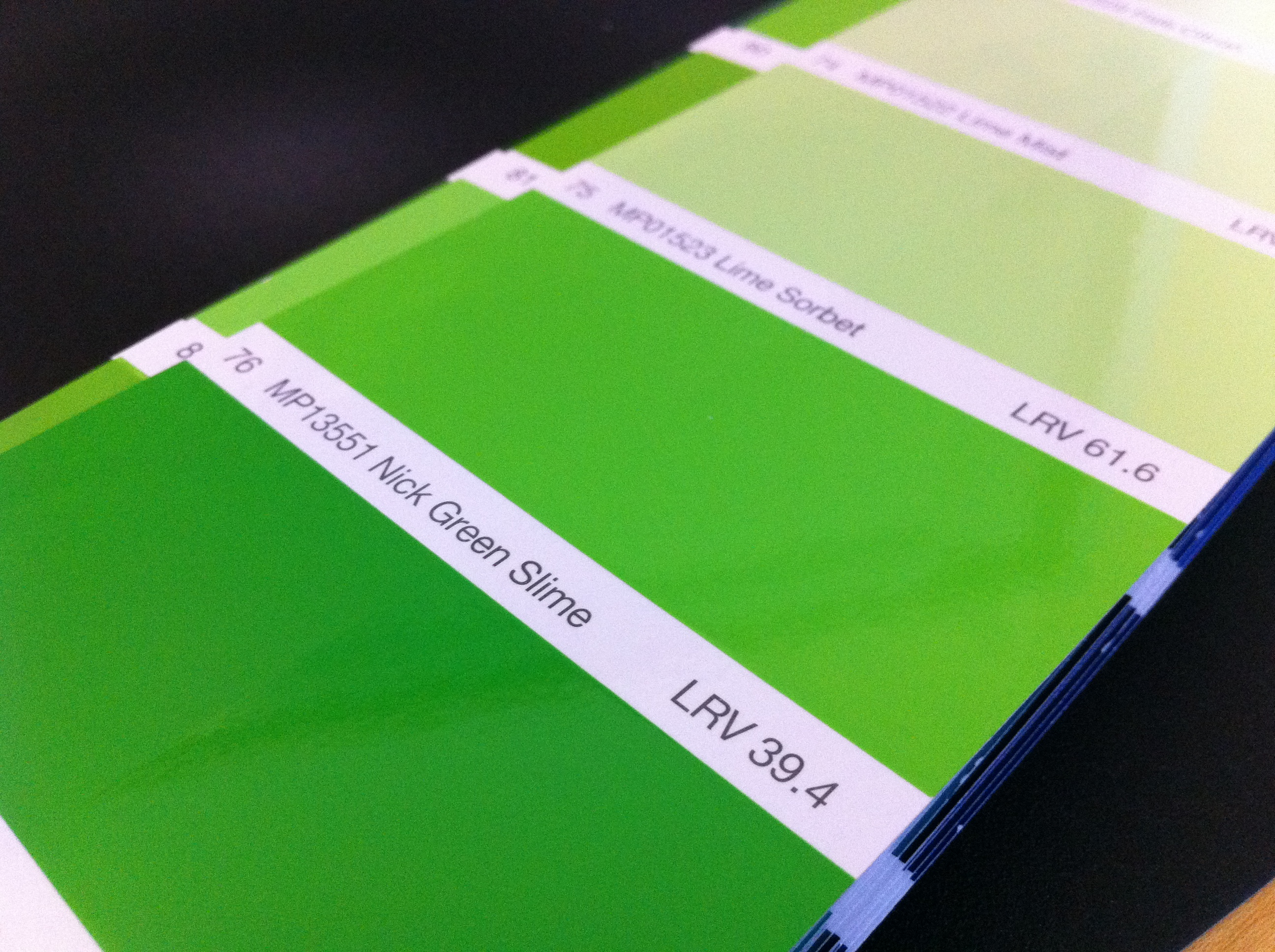 Light Reflectance Value shown on a Matthews Paint swatch